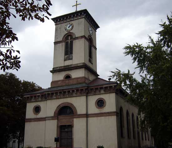 Church of Saint-Louis du Haut-Rhin, near the Monument of the dead.